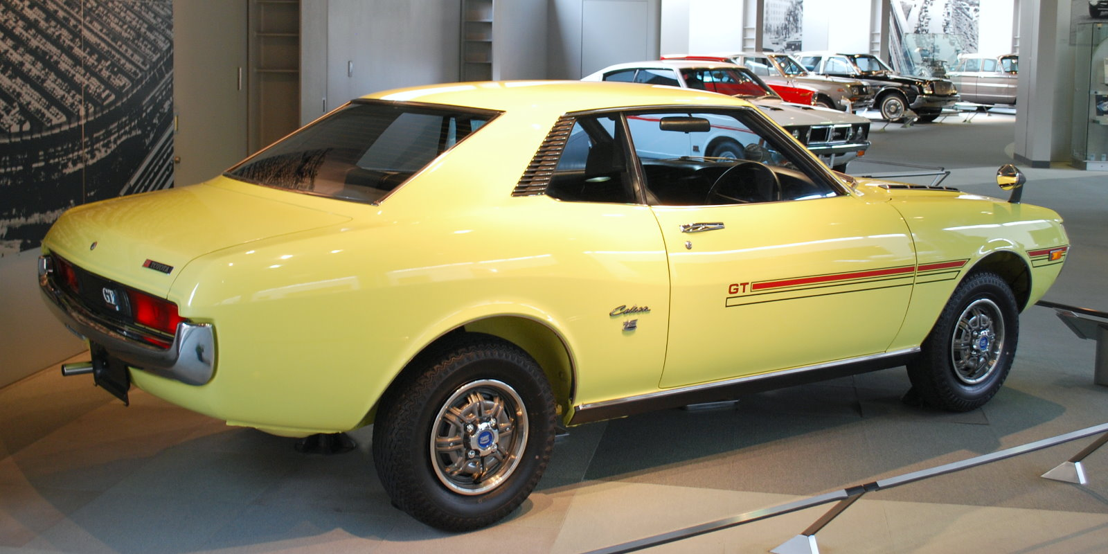 1st generation Toyota_Celica Model TA22